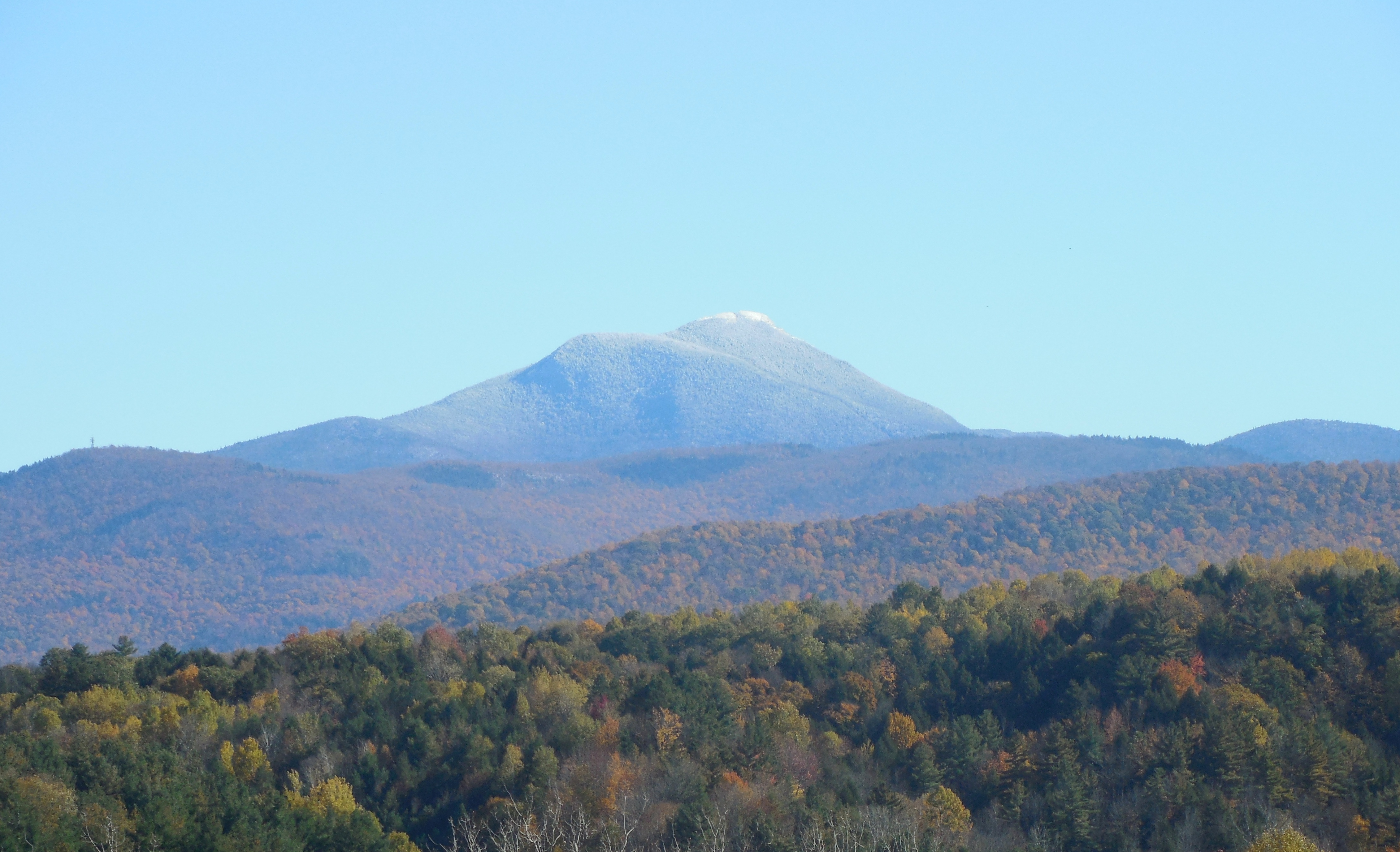 Western face of "Camel's Hump", which traverses Chittenden & Washington Counties, Vermont. Camel's Hump Mountain has one of the 3rd highest summits (at 4,083') within the State (tied with Mt. Ellen). For further information, visit the National Geodetic Survey (NGS) datasheet.